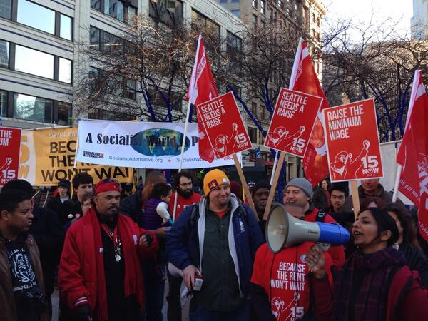 Martin Luther King Jr. Day March for a Living Wage